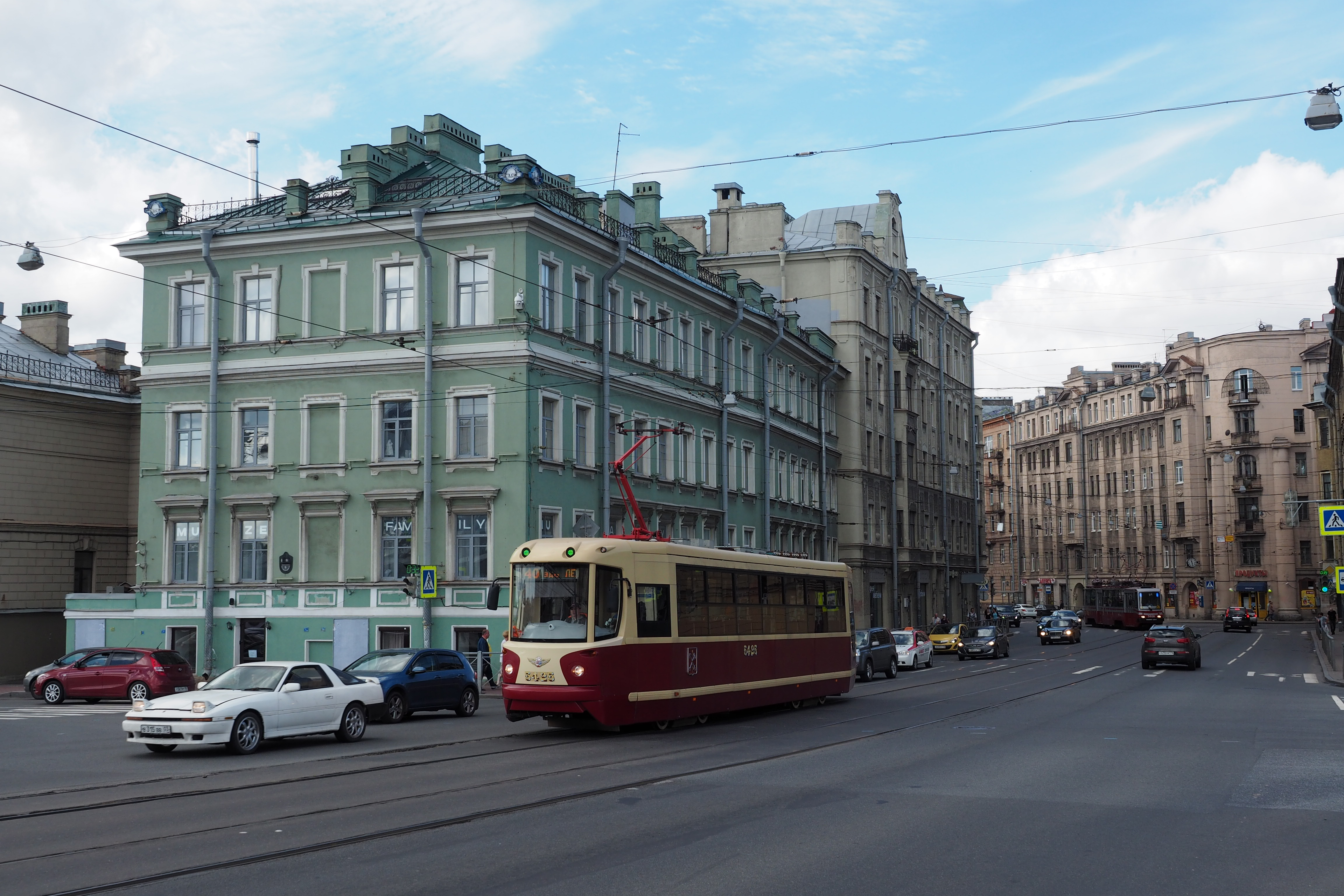 LM-68M2 tram in Saint-Petersburg